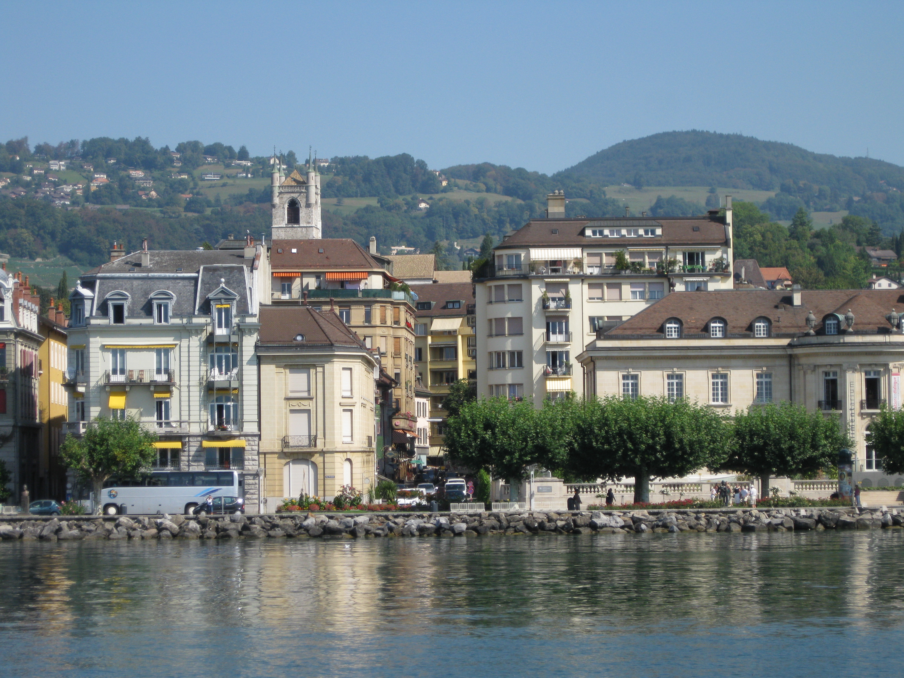 Around the lake of Geneva, Switzerland / France. Location see geotag.